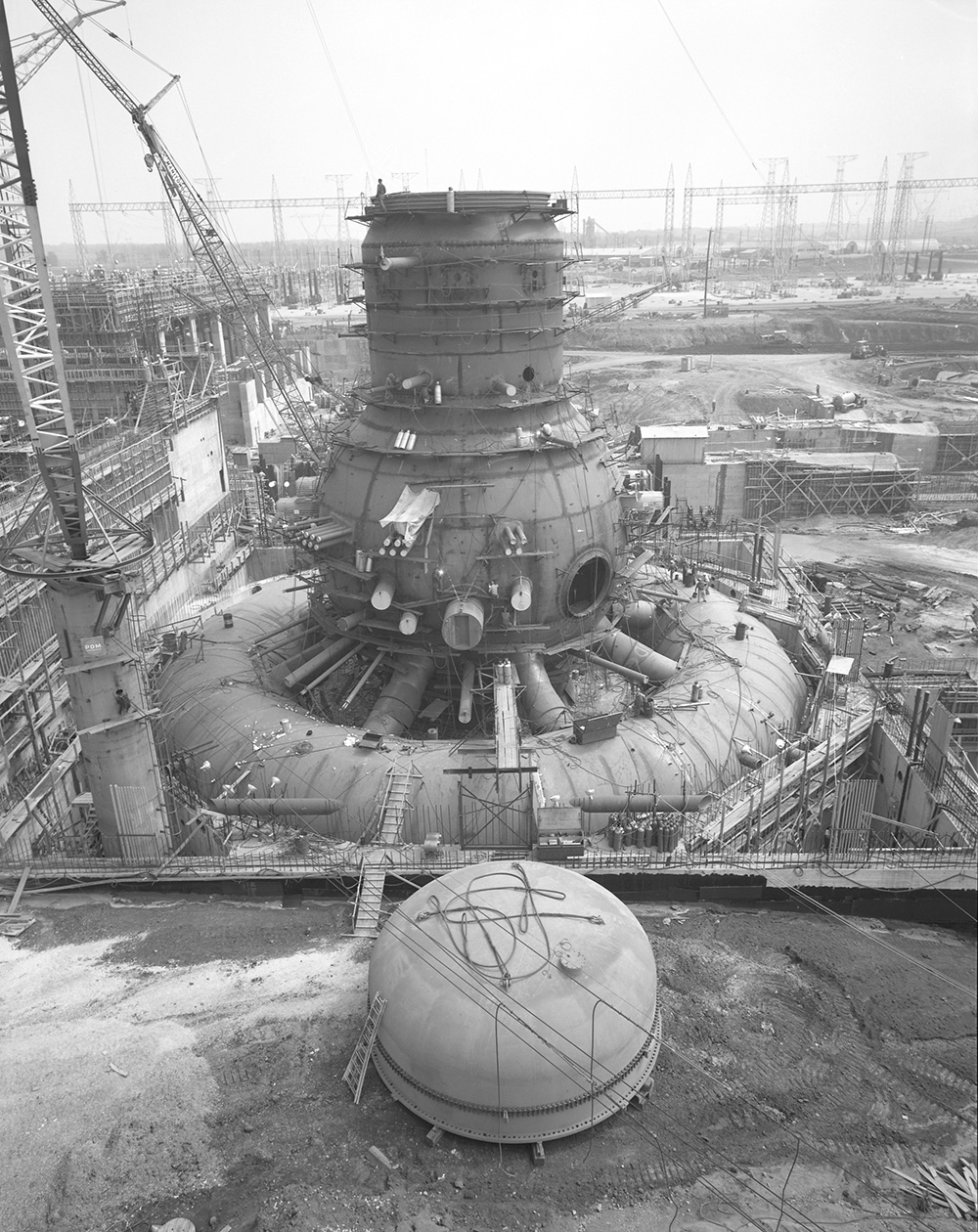 Browns Ferry Nuclear Power Plant's Unit 1 under construction which began in 1966.